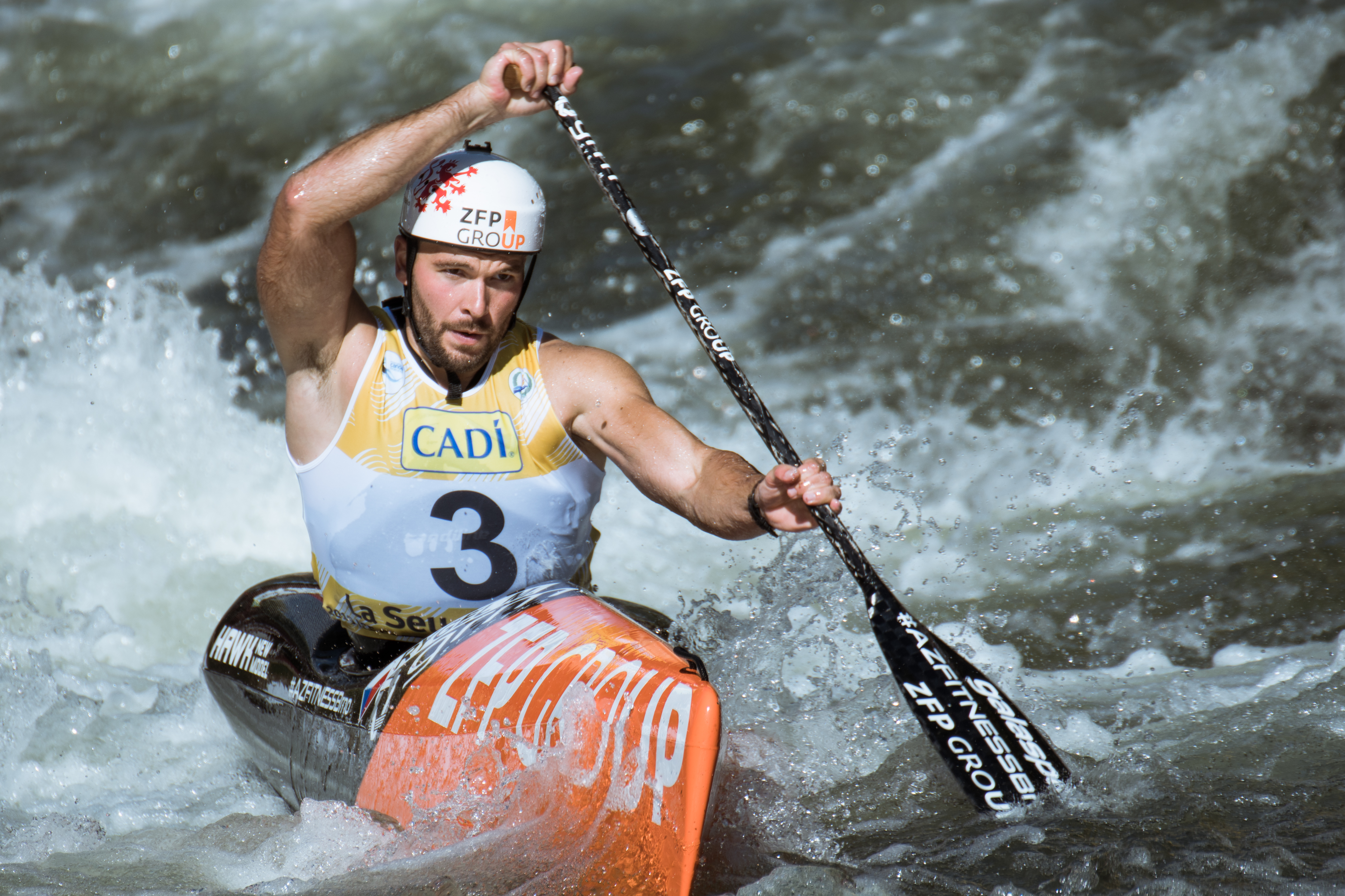 Marek Rygel during the 2019 Canoe Wildwater World Championships in La Seu d'Urgell, Spain.